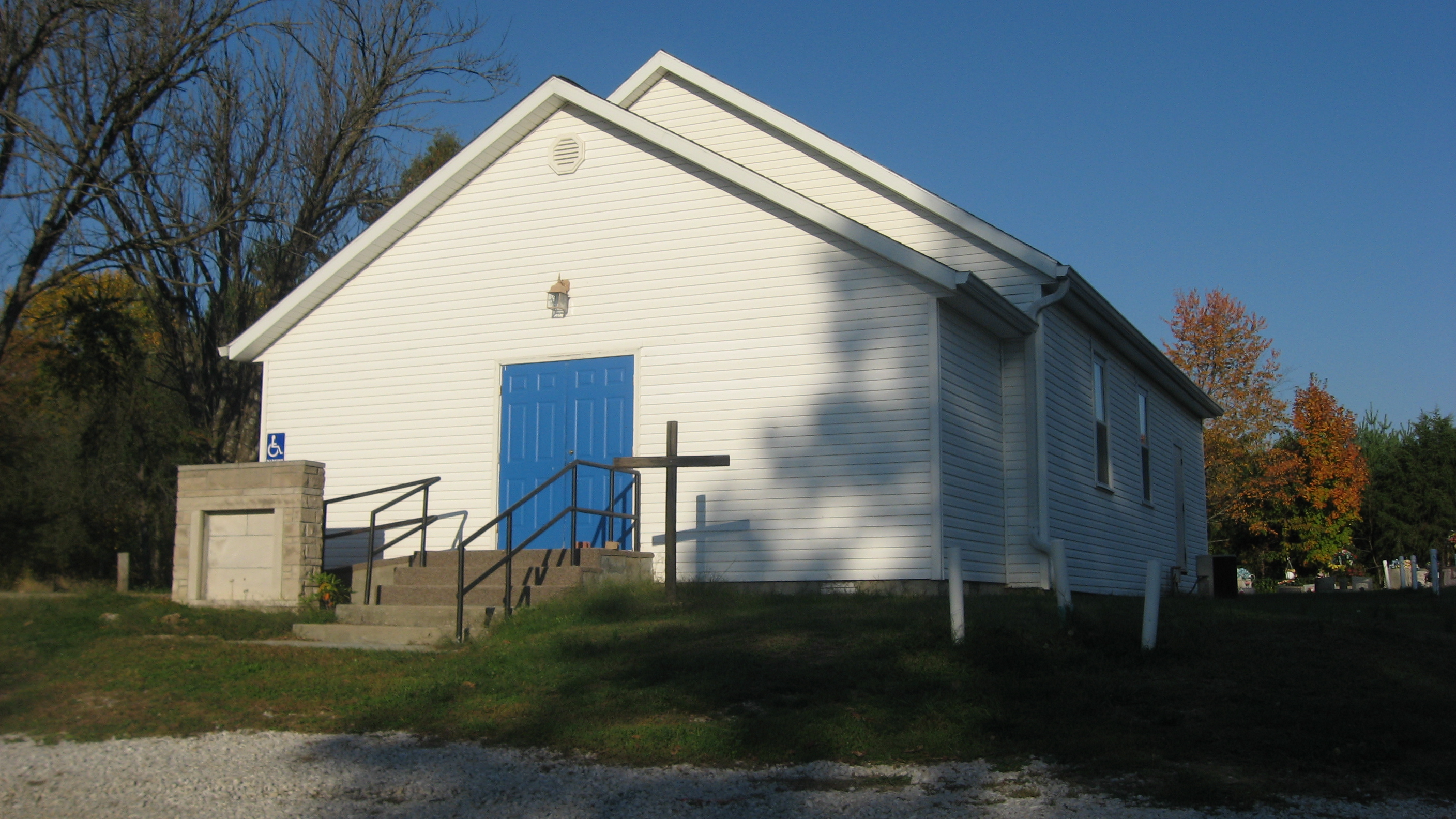 Front and southern side of the Pentecostal Assembly of Chapel Hill, located at 9991 S. Chapel Hill Road northwest of Heltonville in Polk Township, Monroe County, Indiana, United States. It was built in 1940.